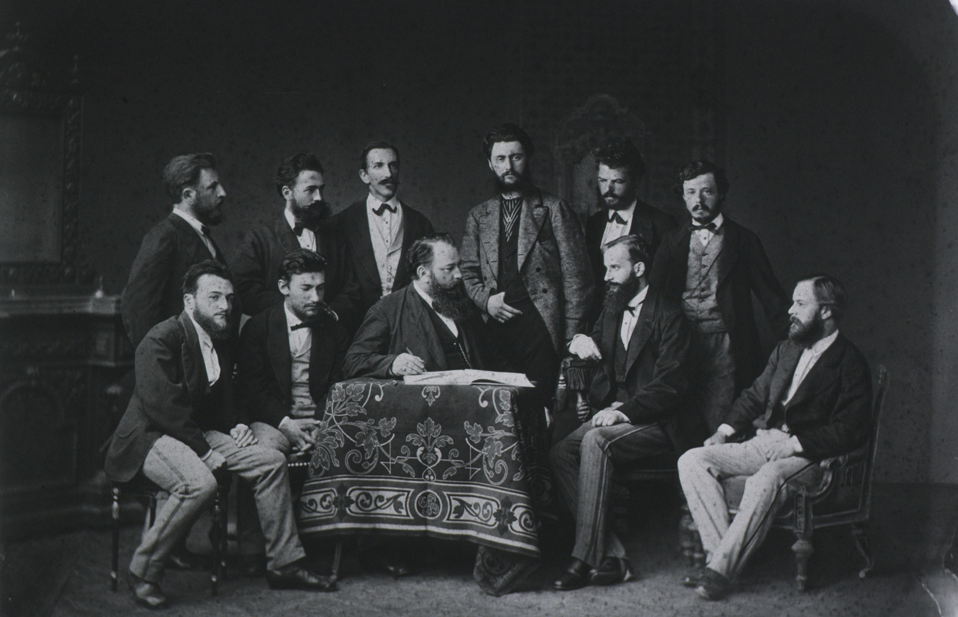 Theodor Billroth with his assistants (1871). First row, sitting, from left to right: Robert Gersuny, Vincenz Czerny, Billroth, Menzel, Steiner. Second row, standing, from l to r: Carl Gussenbauer, Lobmayer, Satller, Vladan Gjorgjeviç, Pernitza, Pfleger